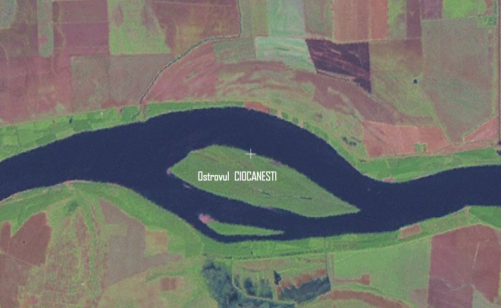 Ostrovul Ciocanesti (Ciocanesti Island) from satellite. Object location44° 08′ 21.66″ N, 27° 04′ 20.54″ E